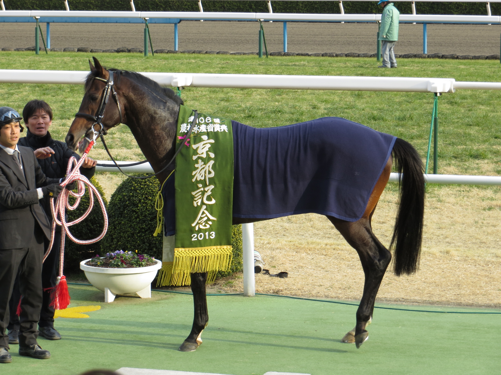 Tosen Ra (Japanese race horse) in 106th Kyoto Kinen (Kyoto Racecourse).